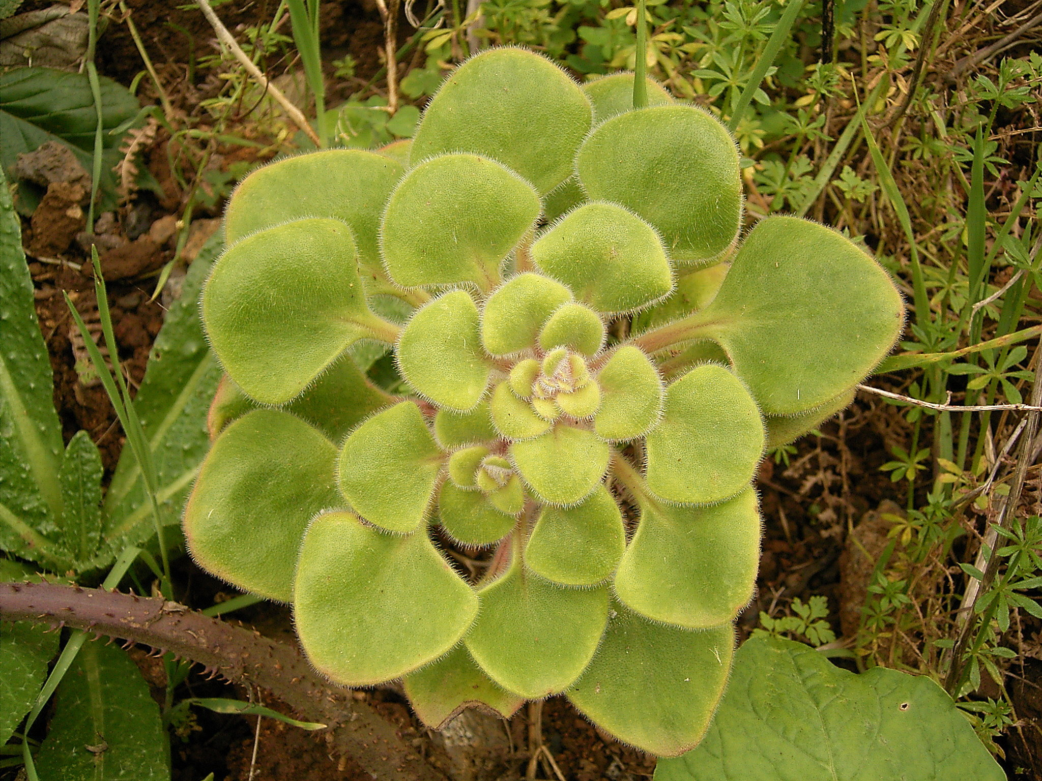 Aichryson laxum growing in Barlovento, La Palma, Canary Islands